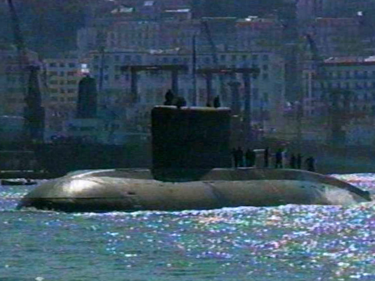 Algerian submarine Hadi Mubarek.